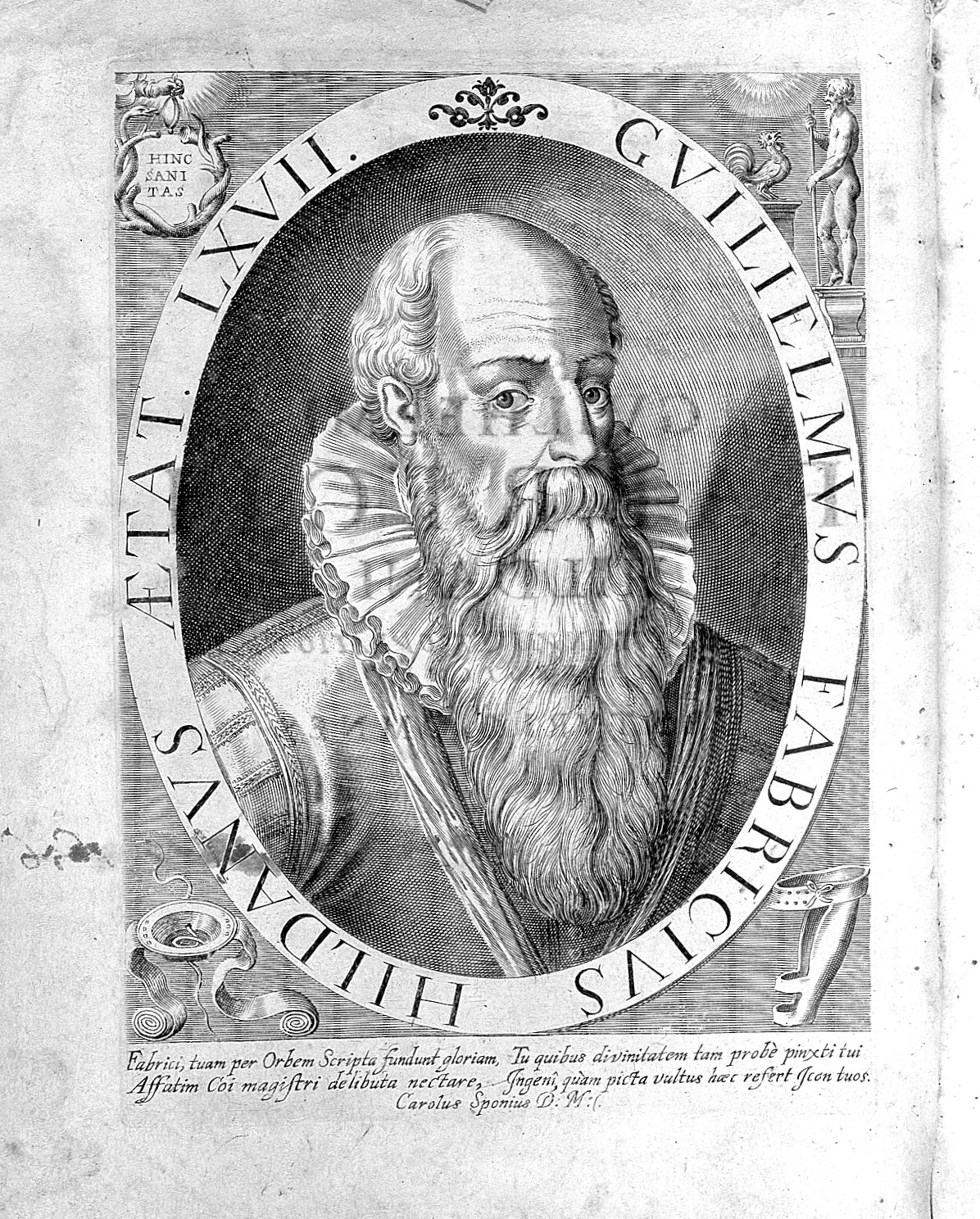 Frontispiece portrait of G. Fabricus Hildanus. Rare Books Keywords: SURGERY; Gulielmus Fabricius Hildanus